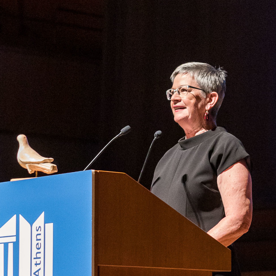 IFLA WLIC 2019 Closing Session (48665107037).jpg The International Federation of Library Associations 2019 conference IFLA WLIC 2019 captured by students from the University of West Attica. 29 August closing session